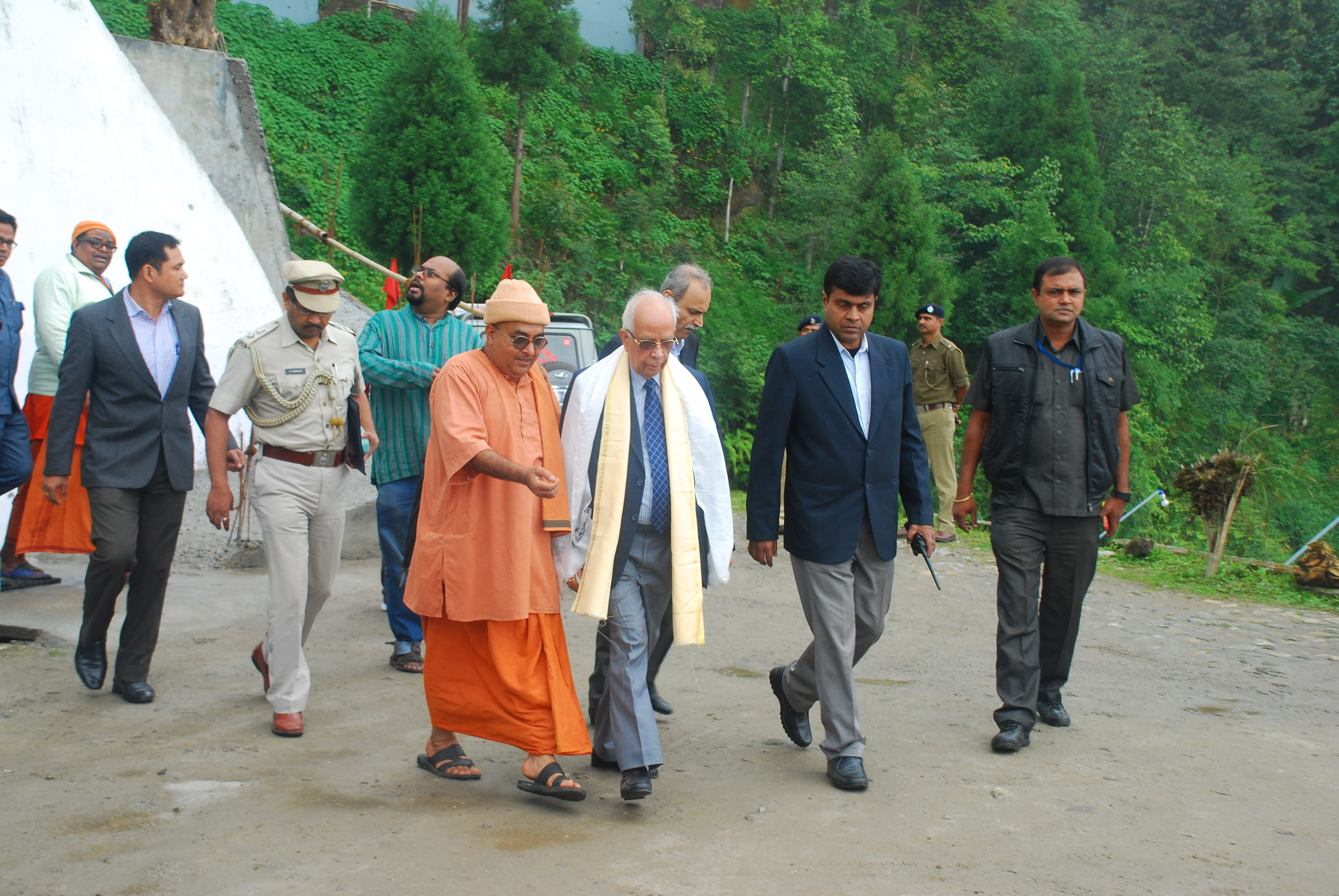 Swami Nityasatyananda ji Maharaj with Honourable Governor of West Bengal, Keshari Nath Tripathi